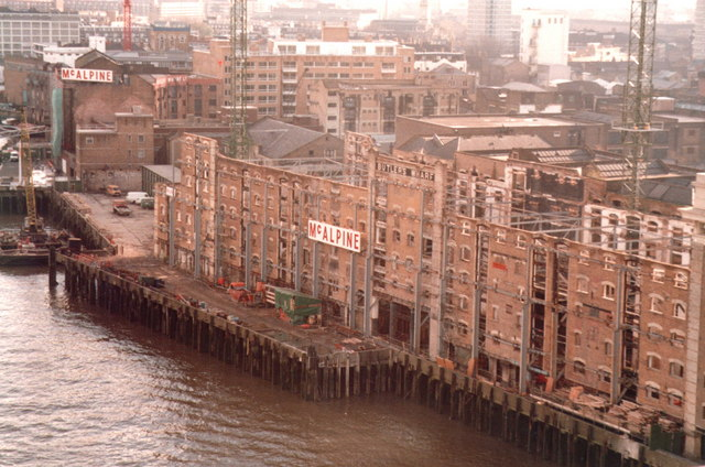 Gentrification Gentrification of Butlers Wharf as seen from the top of Tower Bridge London July 1987